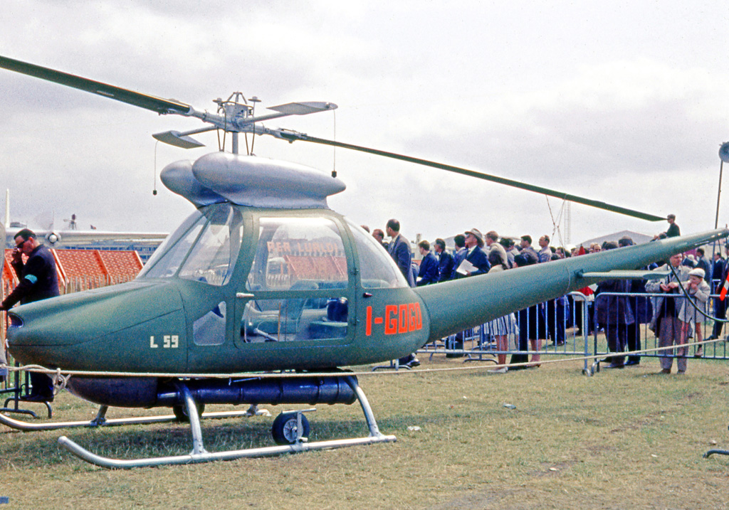 Aer Lualdi L.59 prototype helicopter I-GOGO displayed at the1963 Paris Air Show